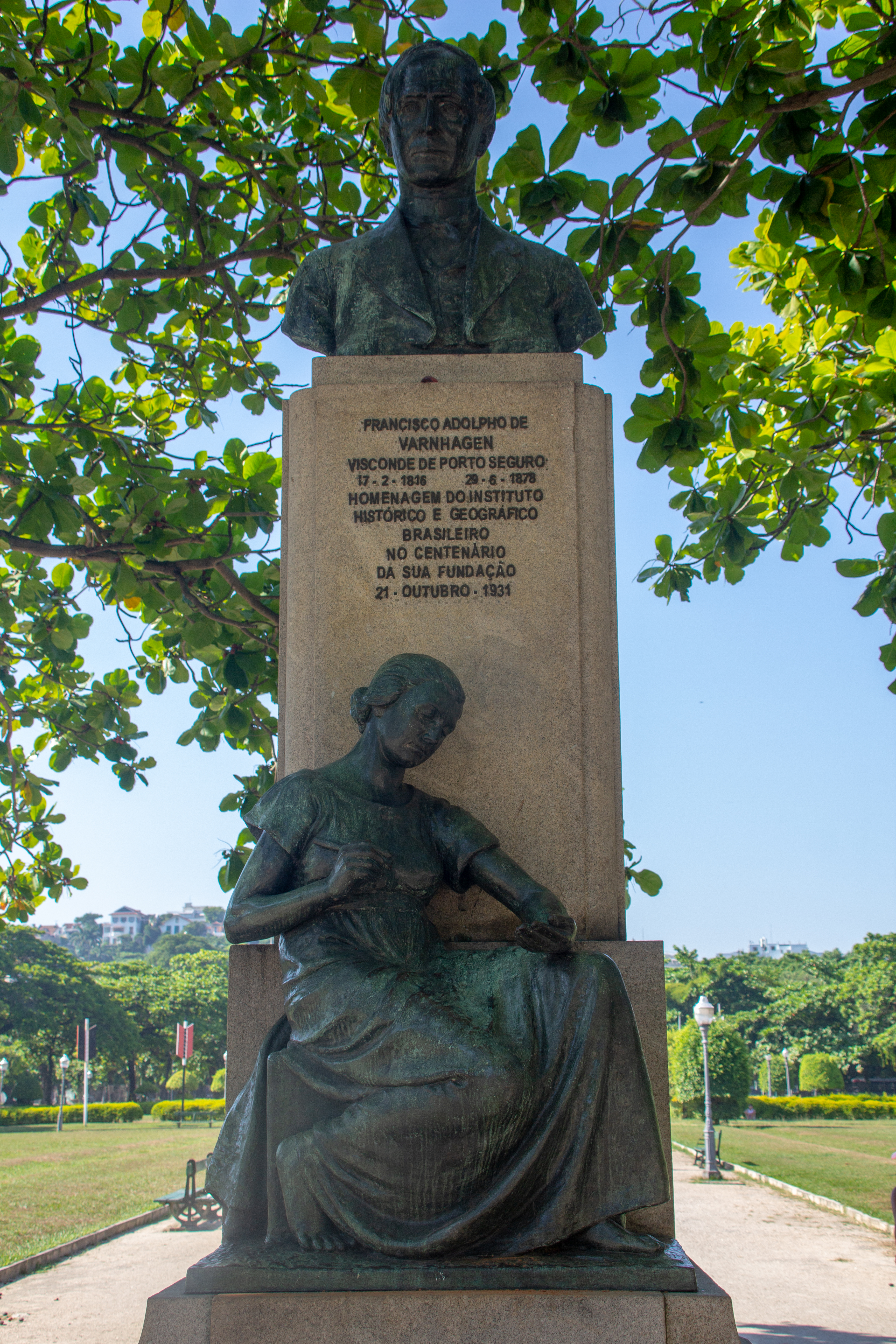 At Rio de Janeiro